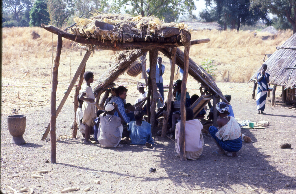 Medical research at Ndebu, southeast Senegal (West Africa)